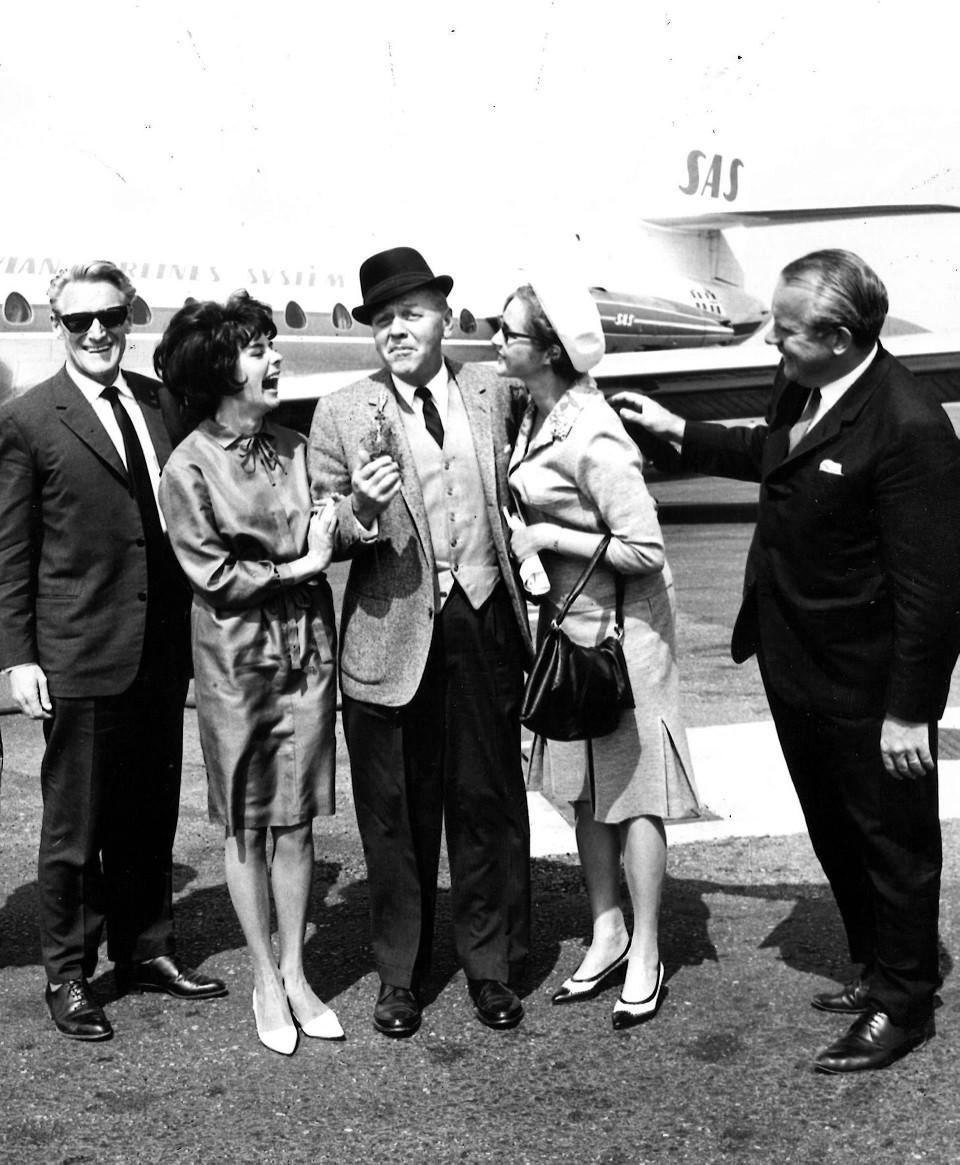 Photograph of the American producer Palmer Thompson arriving to Helsinki in June 1964. From left to right: Åke Lindman, Pirkko Mannola, Palmer Thompson, Mrs. Laihanen, Veikko Laihanen.